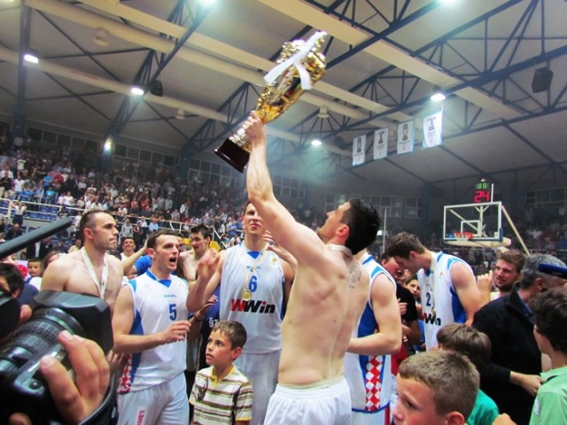 Pecara hall